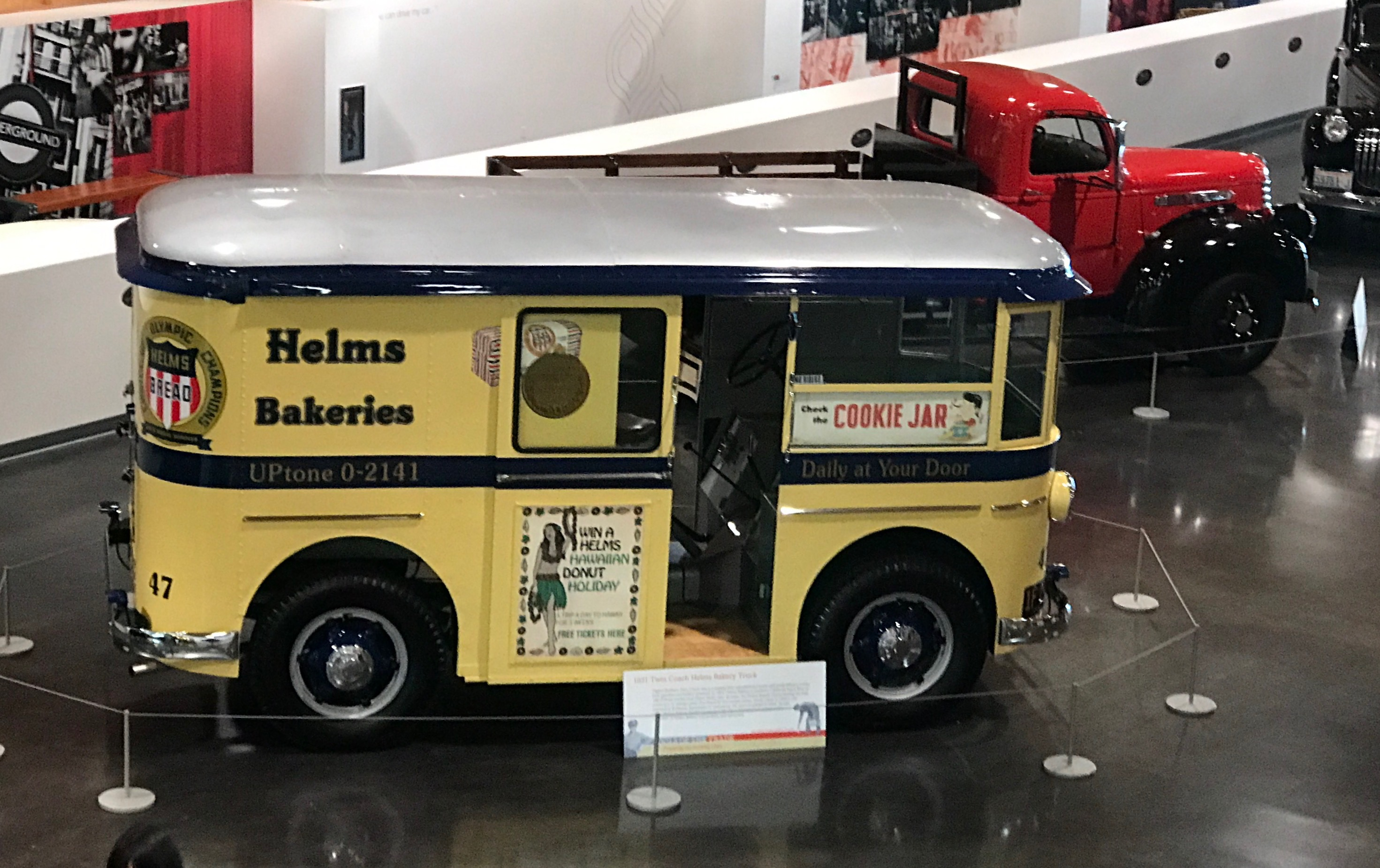 Helms Delivery truck circa 1950s.